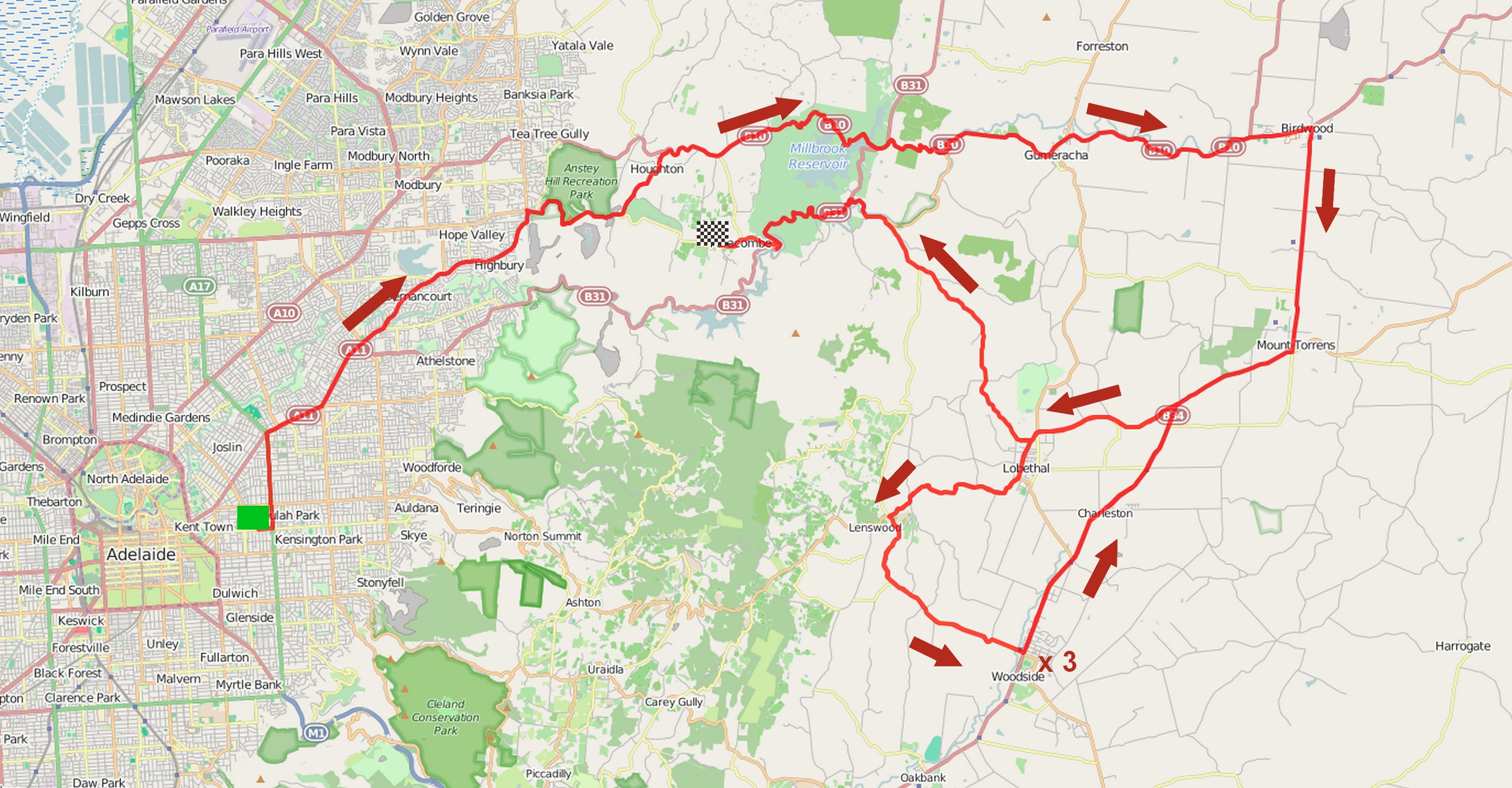 Parcours de la troisième étape du Tour Down Under 2015. This map may be incomplete, and may contain errors. Don't rely solely on it for navigation.